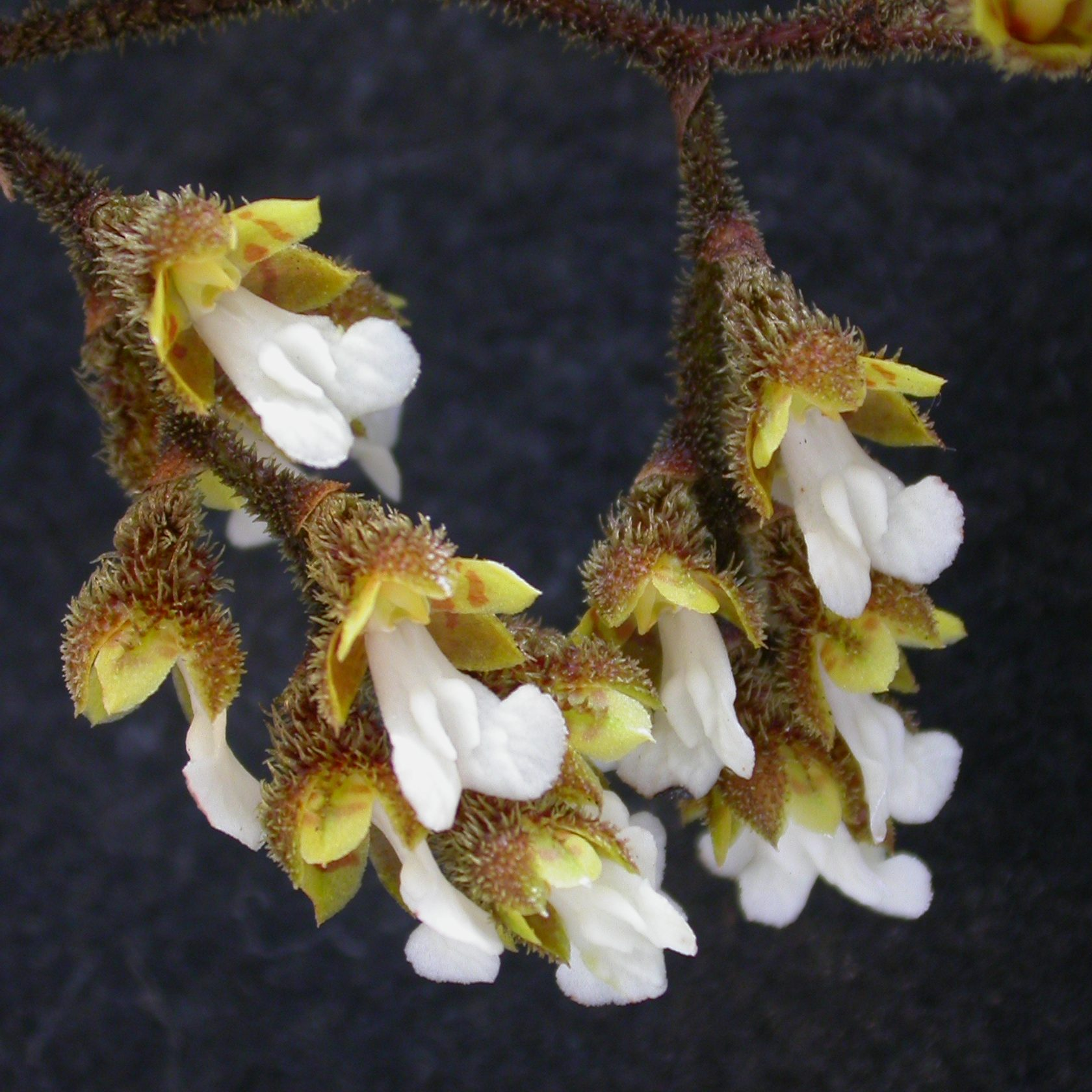 Saundersia paniculata